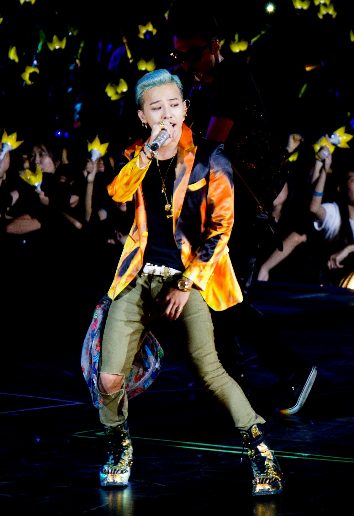 G-Dragon performing on Alive World tour